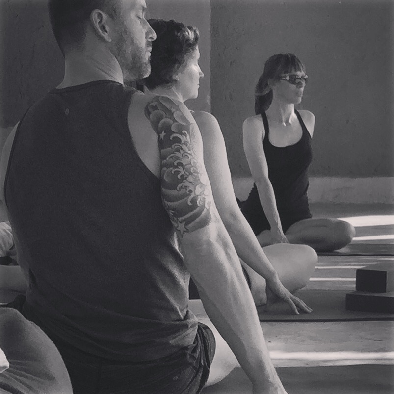 Khadine teaching yoga